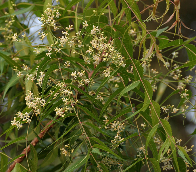 Neem, Margosa, Neeb, Nimtree, Nimba, Vepu, Vempu, Vepa, Bevu, Veppam, Aarya Veppu or Indian-lilac Azadirachta indica in Hyderabad, India.